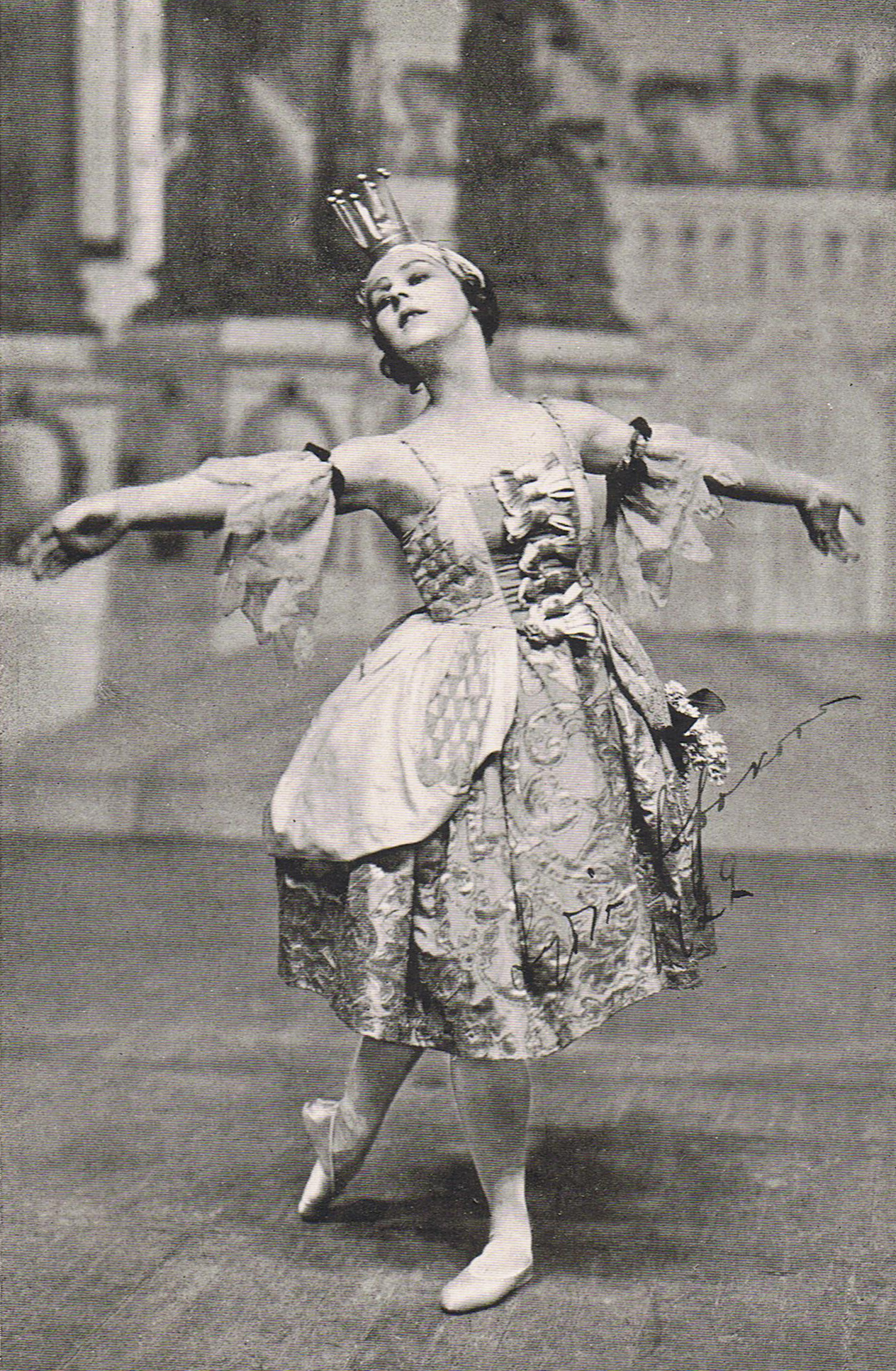 Ballerina Lydia Lopokova as the princess Aurora in The Sleeping Beauty, a ballet first performed by the Ballets Russes in 1921. This image is a digital reproduction from a picture by A.W. King as it was printed in the book Ballet Panorama (1938) by A.L. Haskell. The exact date of the original picture is unknown to the uploader, but was signed and dated 1922 by Lydia Lopokova on the right hand side.